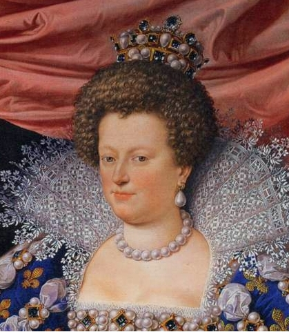 Maria de'Medici as Regent of France aged 38 in 1611